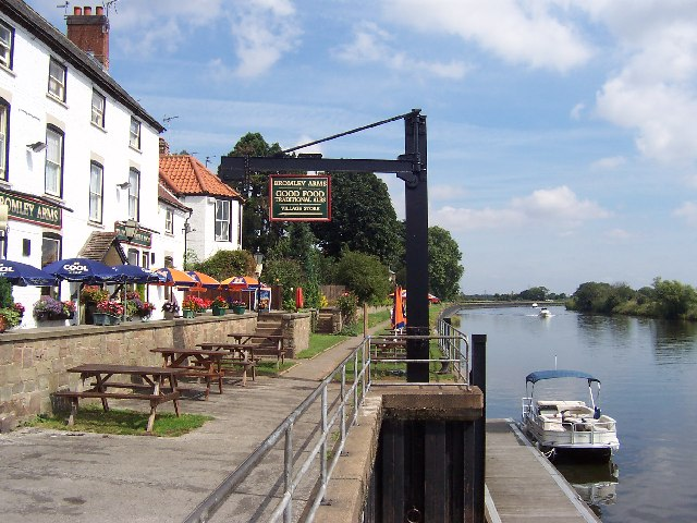 River Trent at Fiskerton. This looks north east from the Bromley Arms in Fiskerton. The scene is along the Trent, down river.